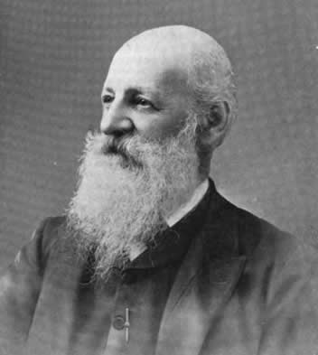 picture of theodore hittell